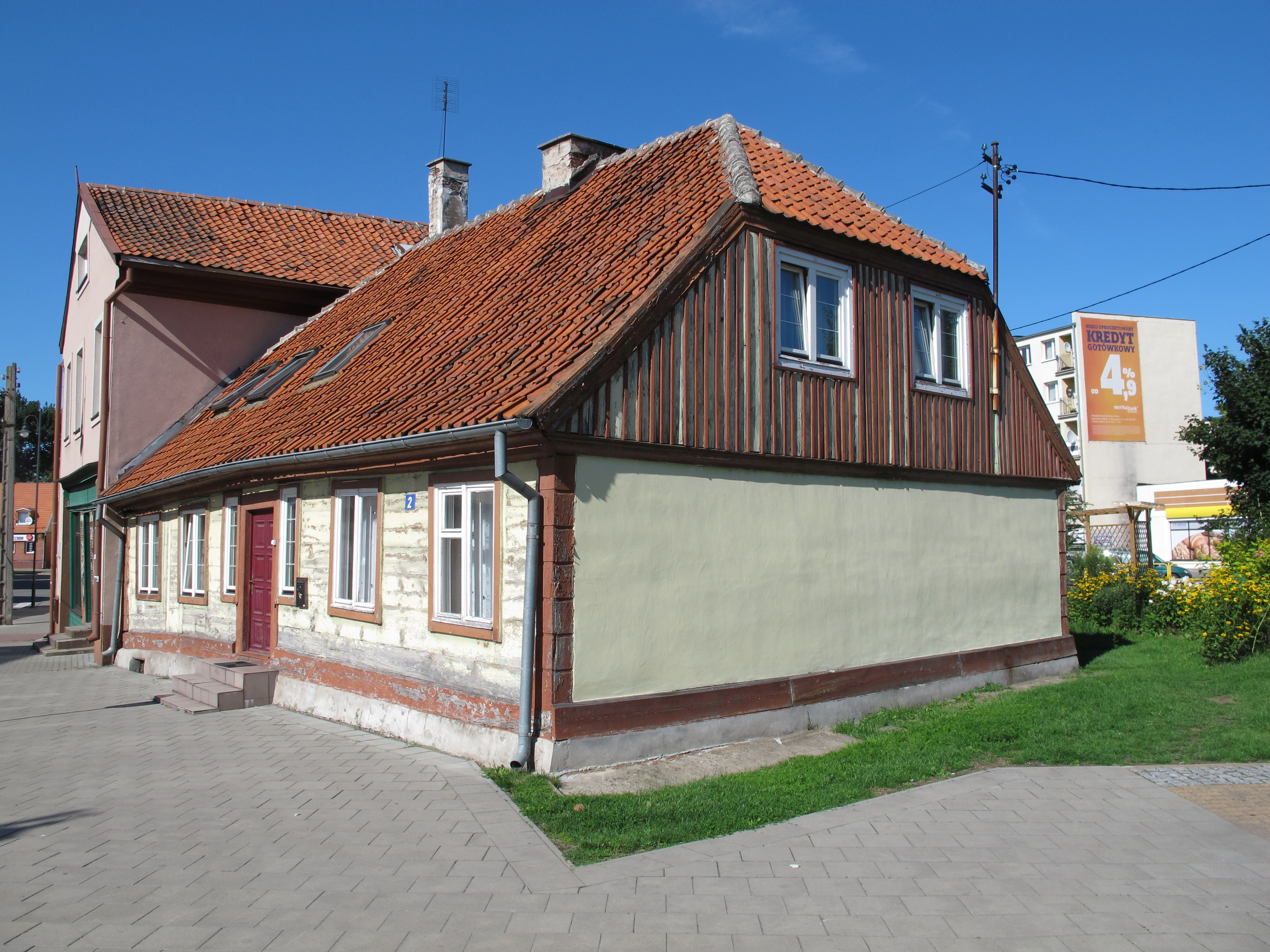 Nowy Dwór Gdański - a house